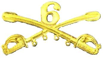 United States Crossed Cavalry Sabers, 6th Cavalry, paint shop modified from hand drawn color sketch with a number 6.